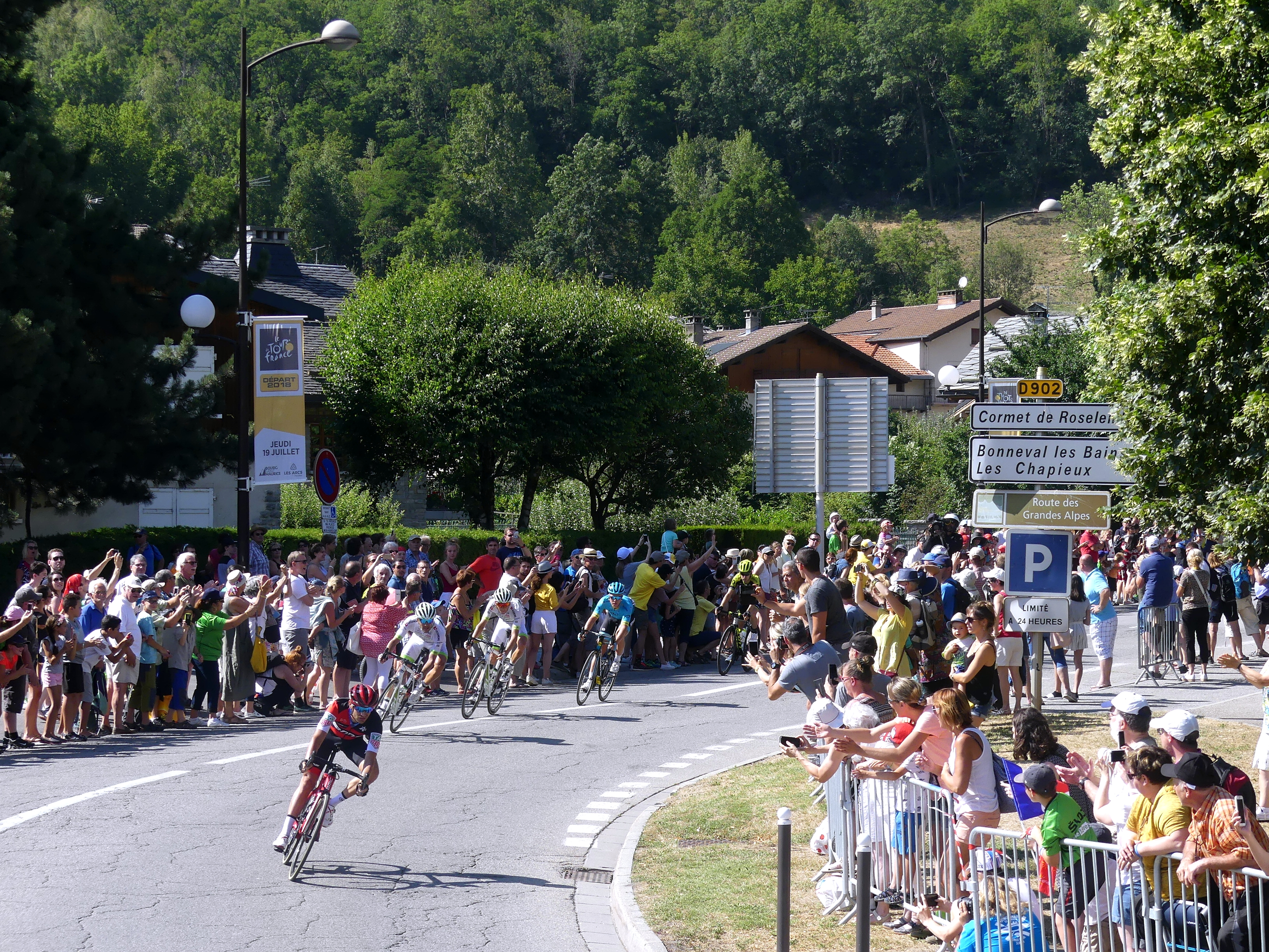 Sight of the breakaway of the Tour de France 2018 11th step, in Bourg-Saint-Maurice, Savoie, France.